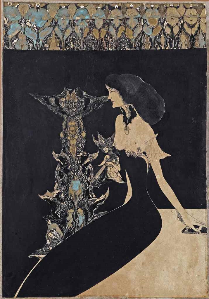 A seated elegant lady.